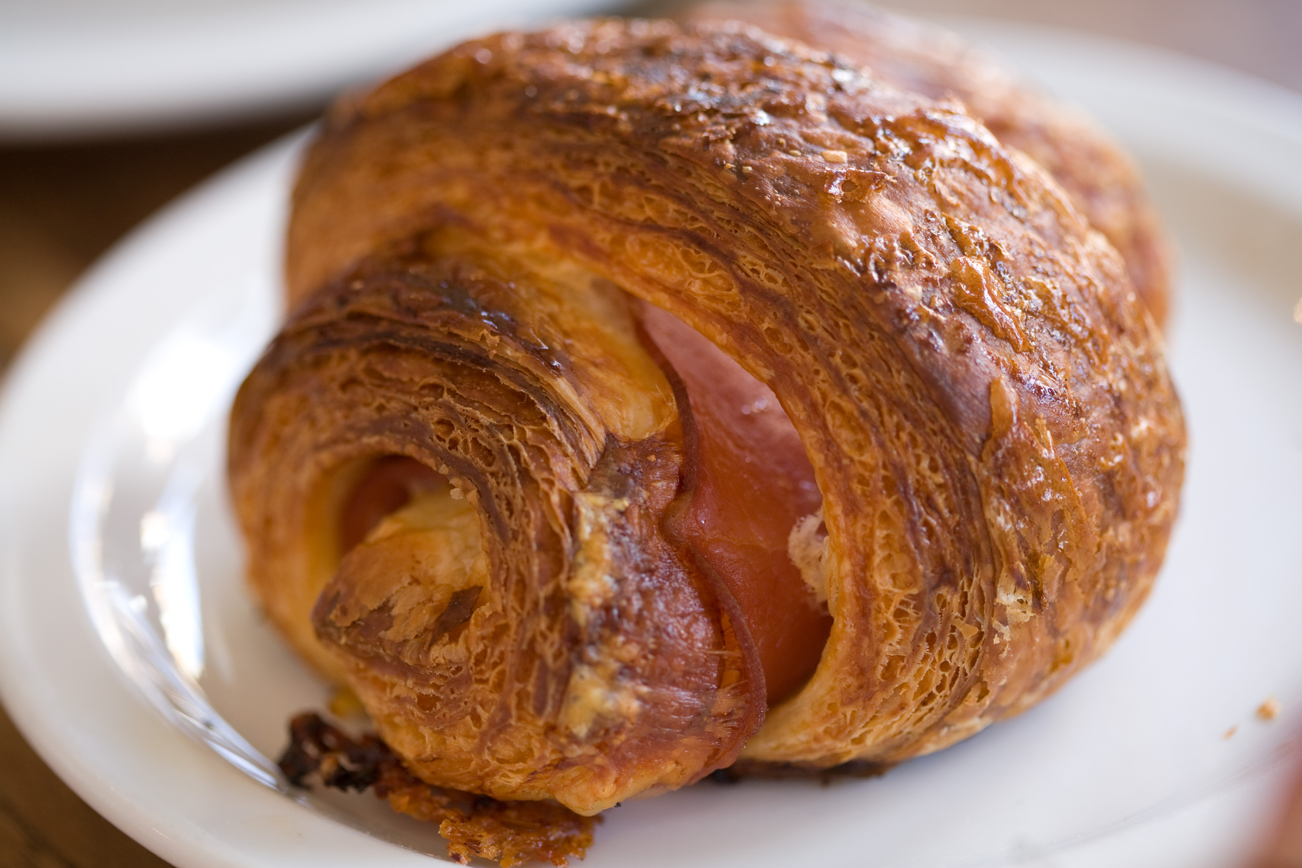 Ham and cheese croissant